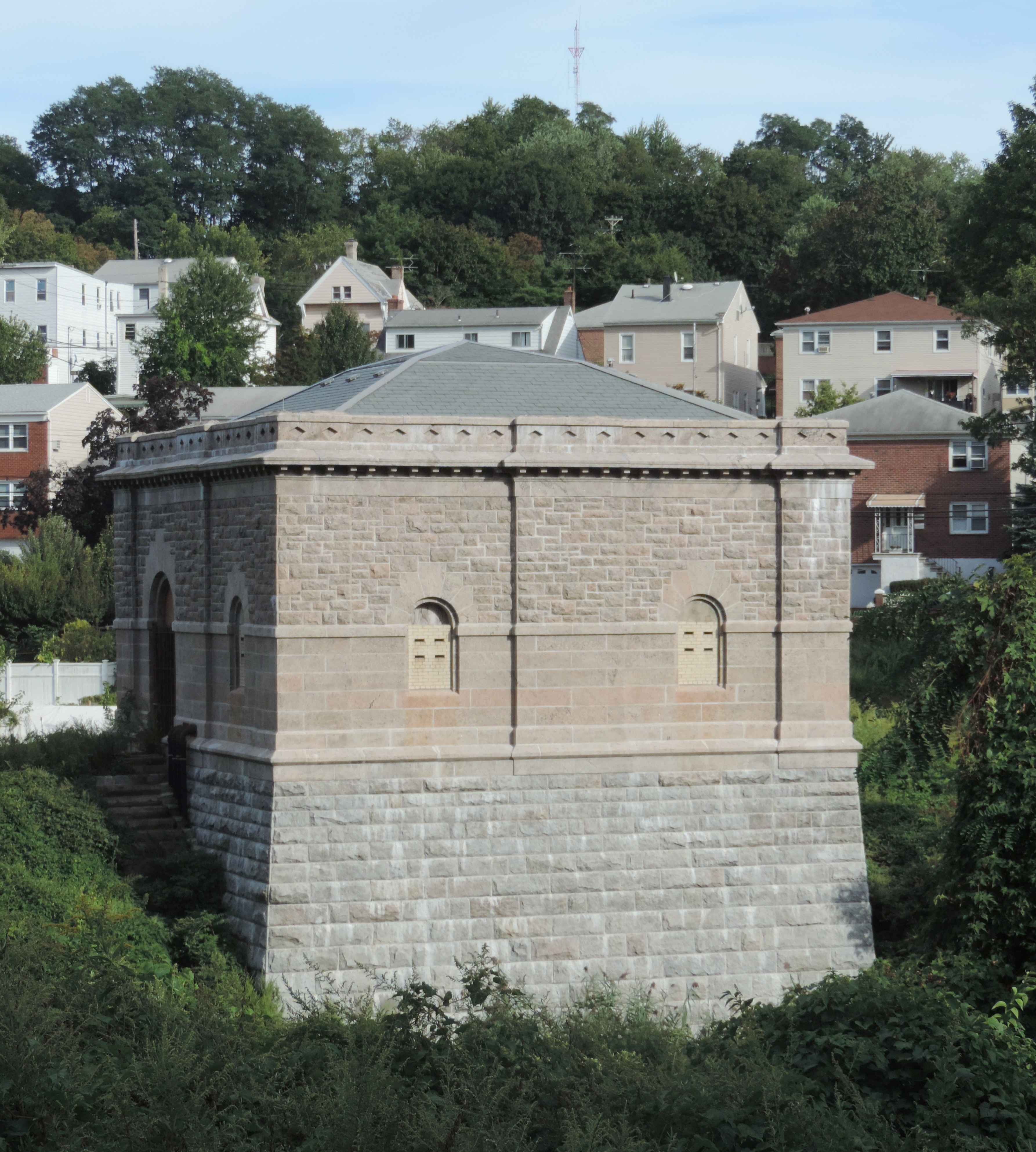 Looking east from Trailway at stone building atop New Croton Aqueduct Shaft 18 on a mostly sunny afternoon.